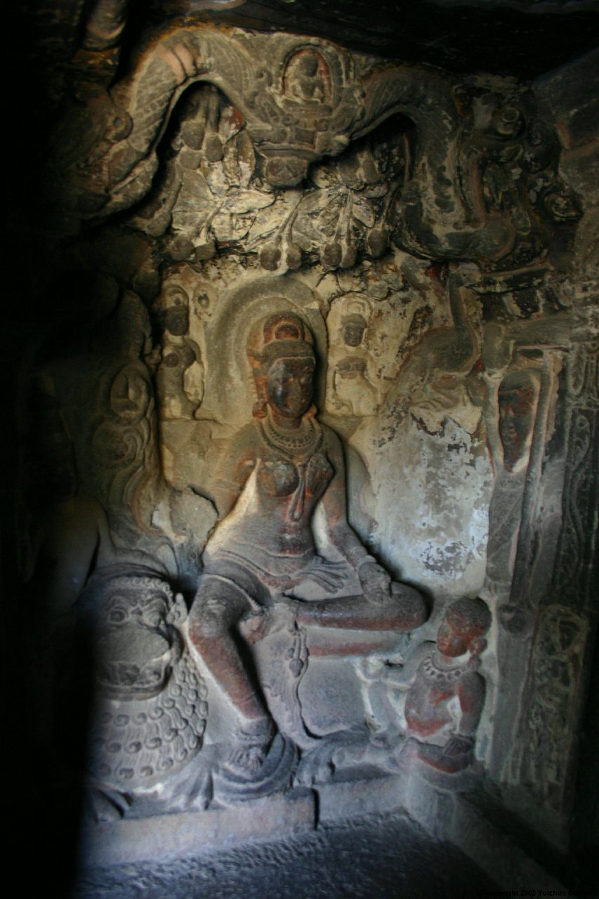 Ellora caves. Cave 34?. "On another cave, an imposing yakshi is seated on her lion under a mango tree, laden with fruits." from Ellora